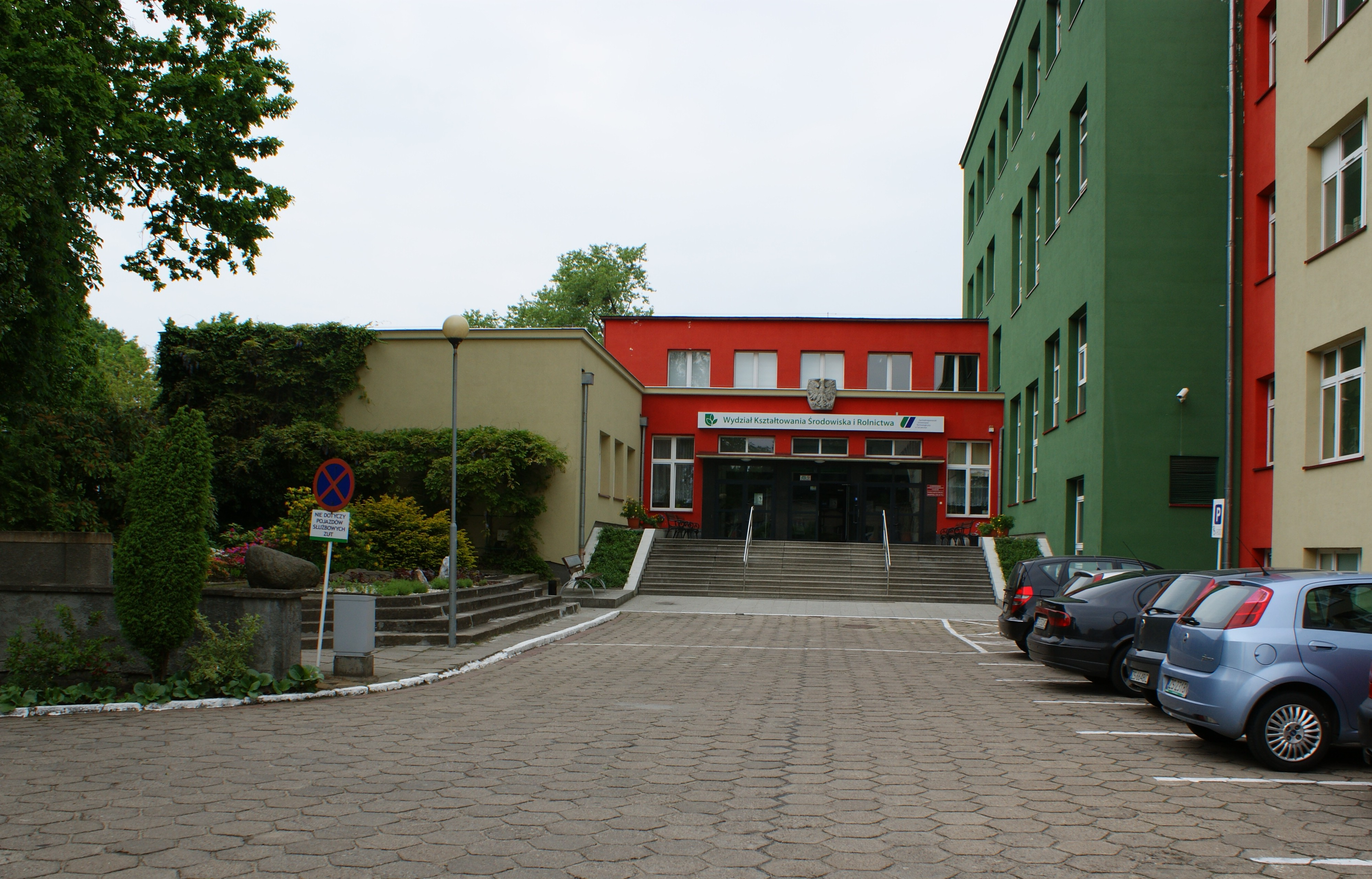 Building of Faculty of Environmental Management and Agriculture of West Pomeranian University of Technology in Szczecin (NW Poland), Słowackiego Street 17